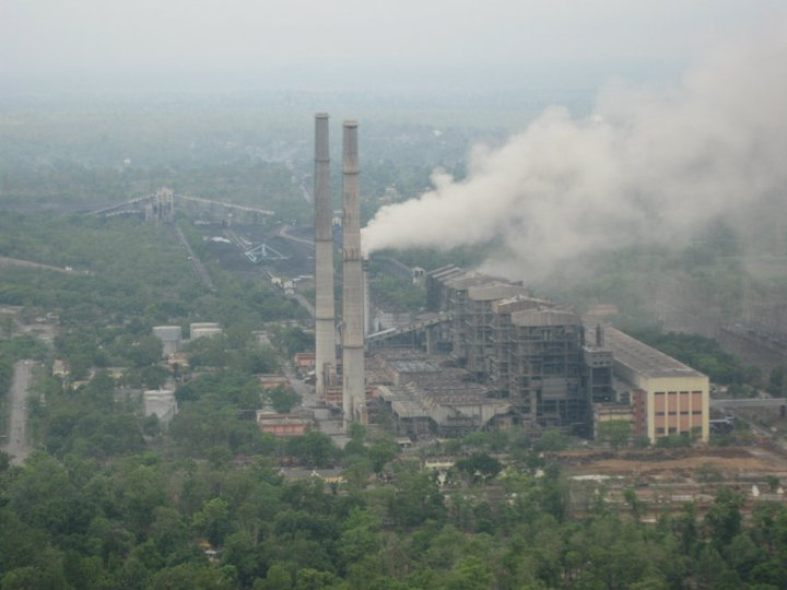 Sarni is home to the largest power plant in MP, contributing to approximately 70% of total electricity supply of Madhya Pradesh. Its total capacity is 1142.5 megawatts and the construction work for the new 500 MW has already started.